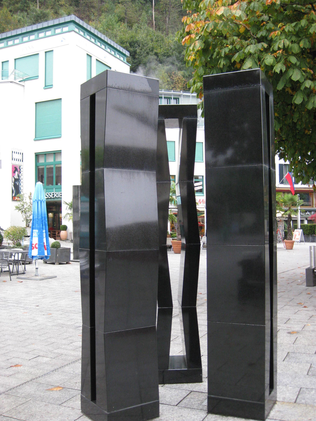 Christian Megert, Progression einer Form in 3 Stelen, 2002, Liechtenstein, Vaduz, Rathausplatz